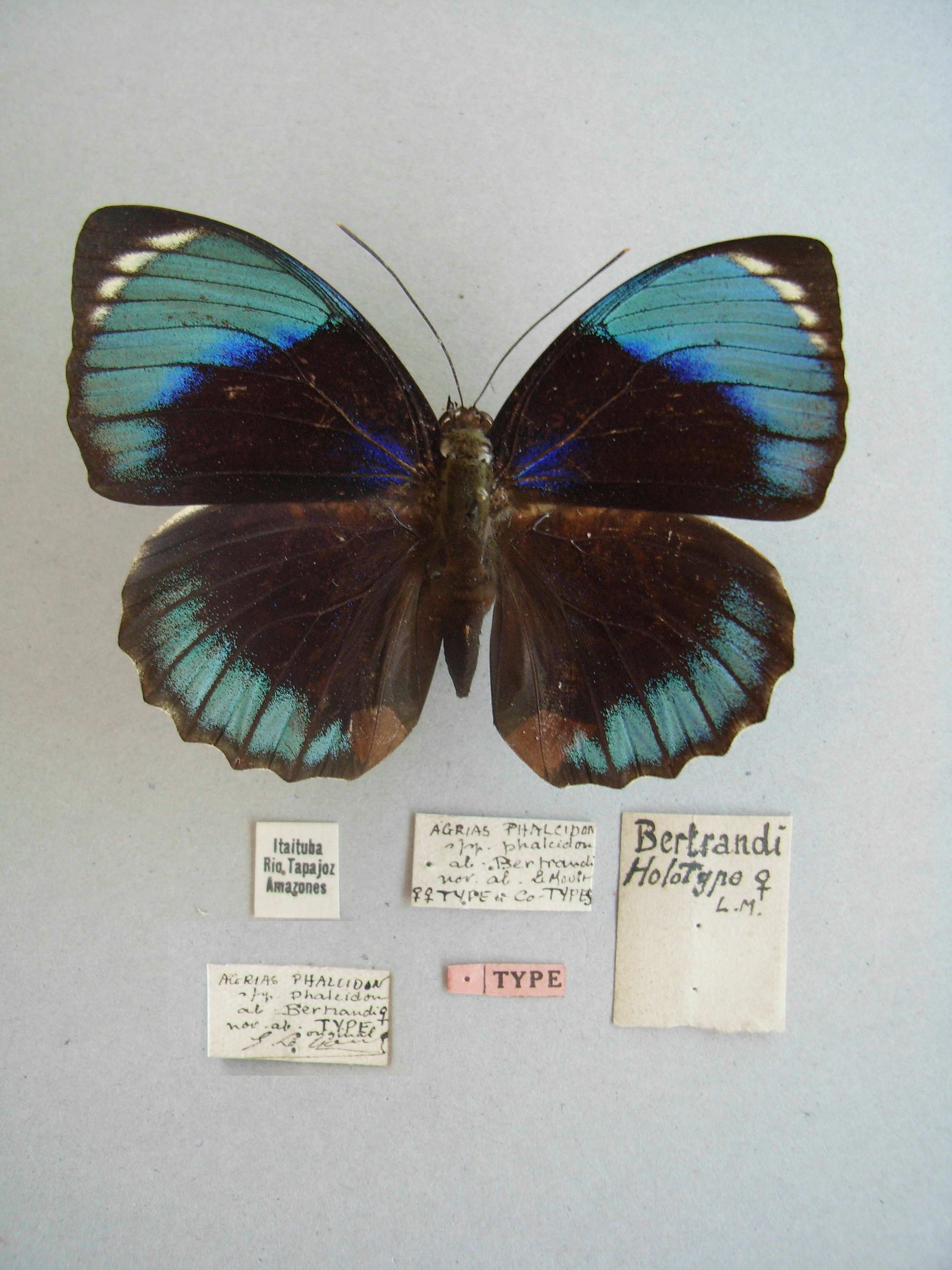 Type of Agrias phalcidon phalcidon Bertrandi Female with label turned